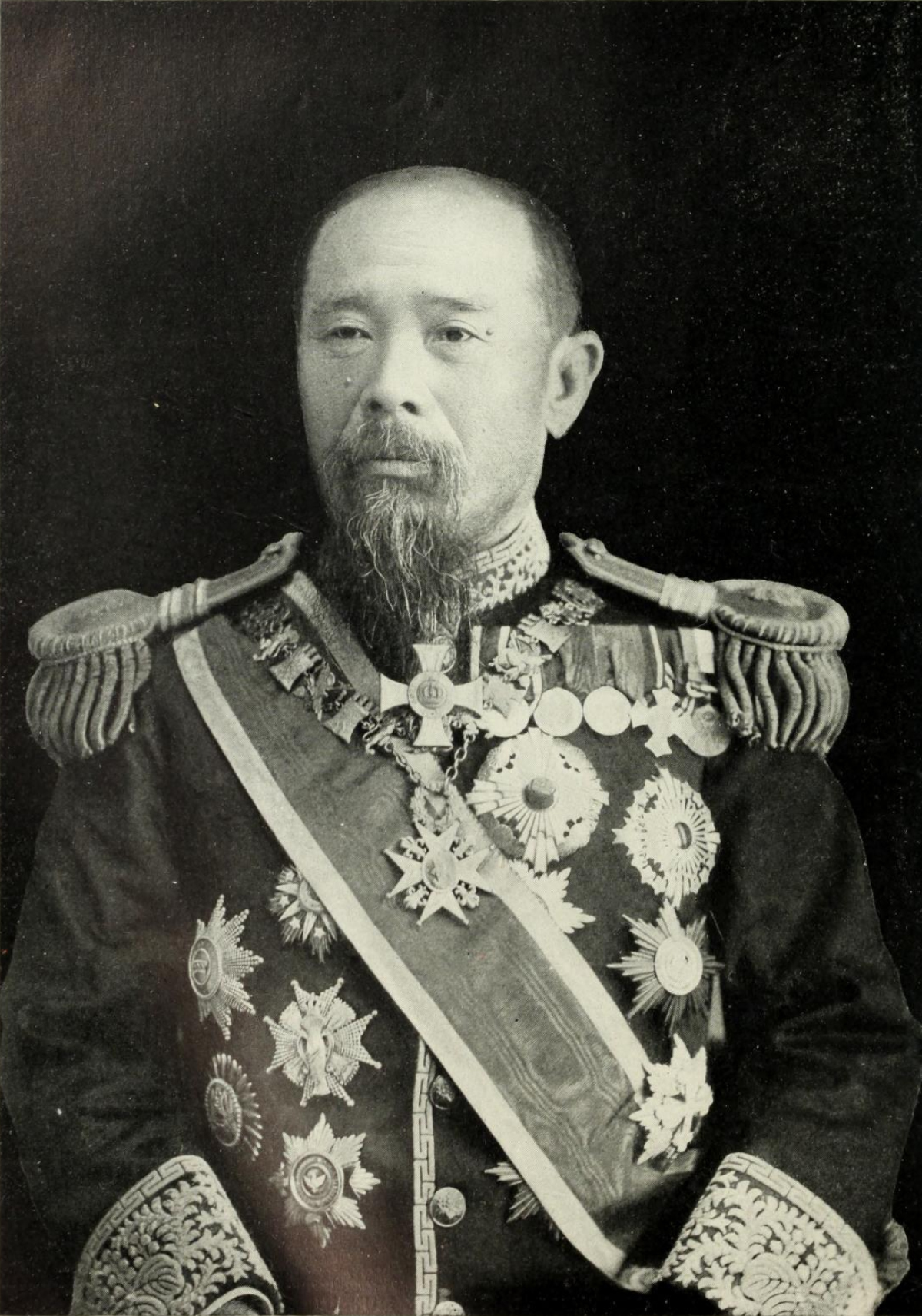 Portrait of Hirobumi Itō